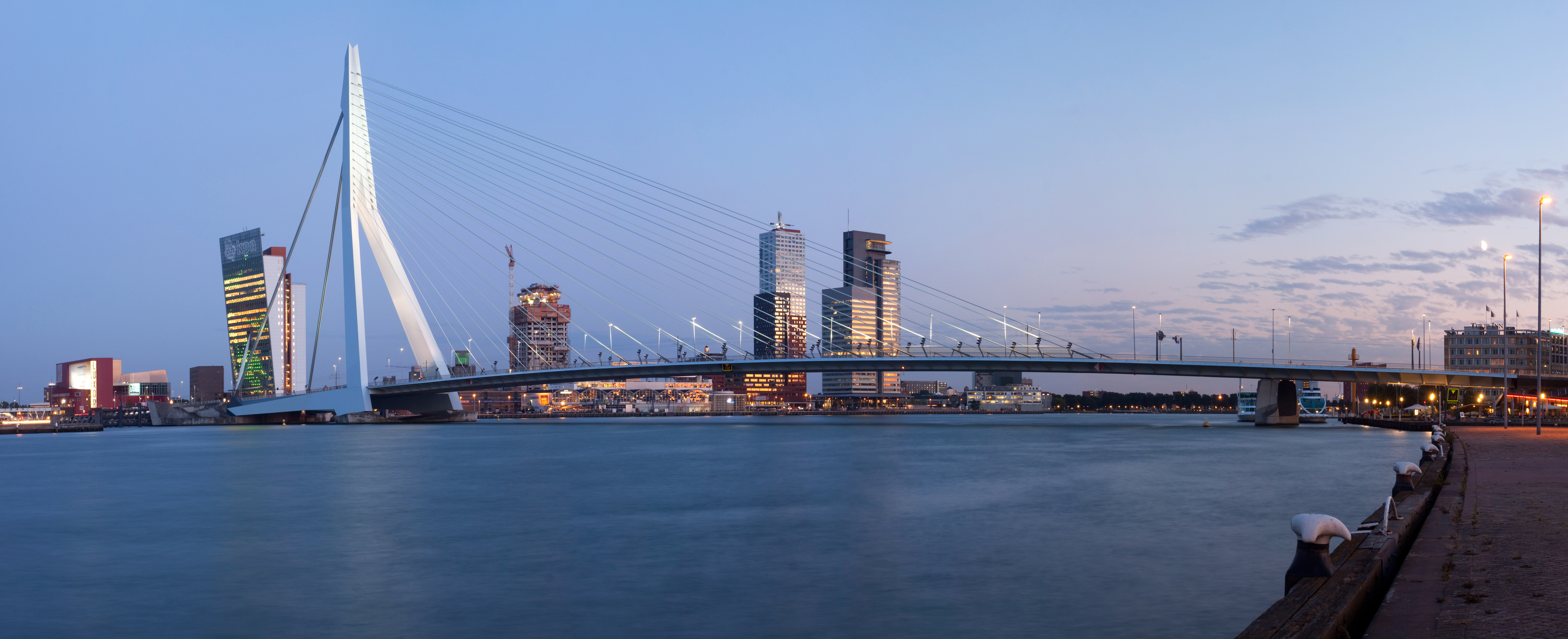 A panorama of the Erasmus Bridge and the River Meuse in the Dutch city of Rotterdam. Visible from left to right in the background are the New Luxor Theatre, the regional headquarters of KPN, Montevideo (highrise) and the World Port Center (highrise).